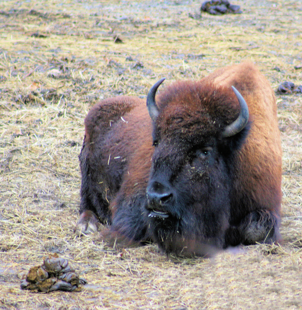 American Bison